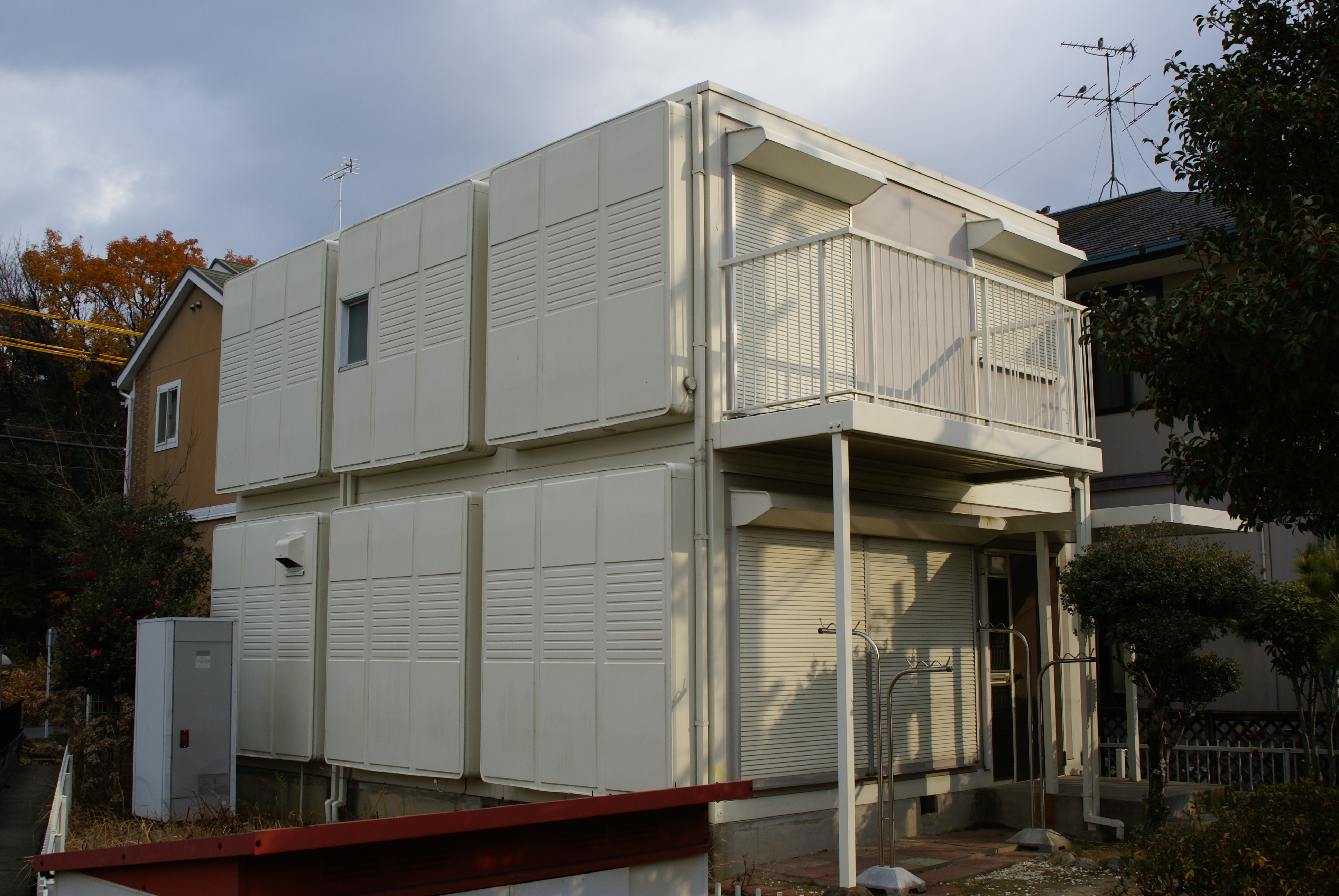 Sekisui Heim MR